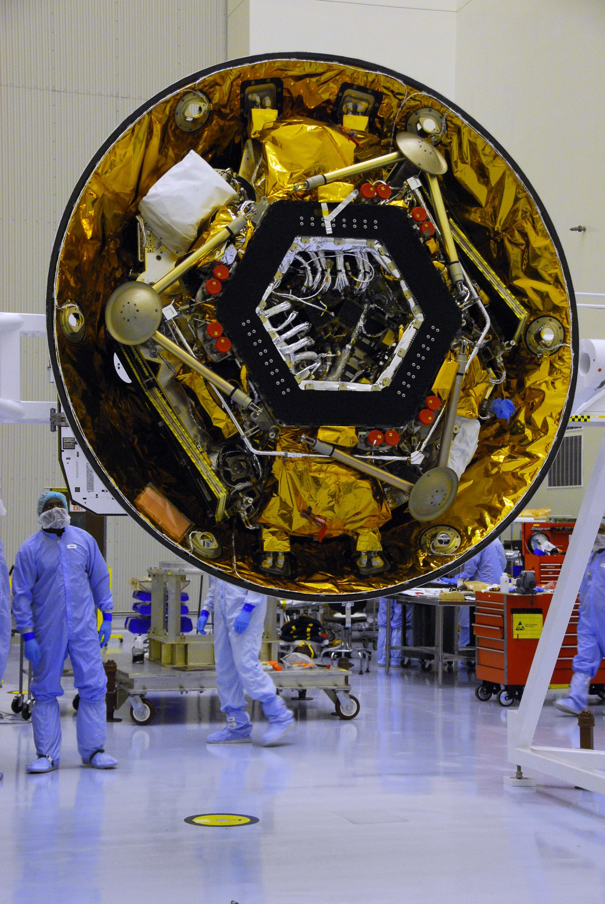 Phoenix in its backshell is rotated for center of gravity determination.